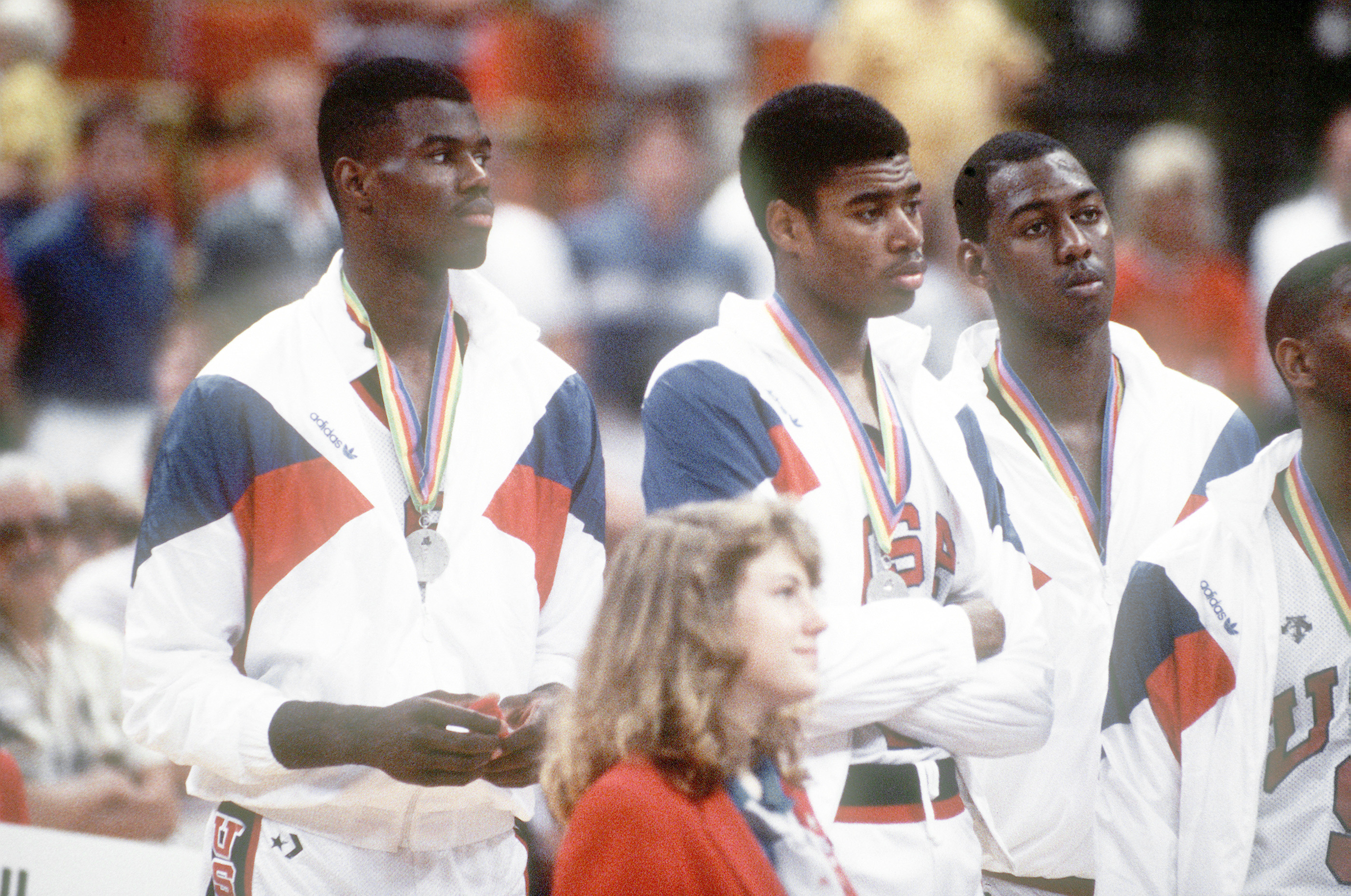 David Robinson, left, stands with some of his teammates from the U.S. men's basketball team after they were awarded silver medals for their performance in the 10th Annual Pan American Games. Exact Date Shot Unknown.